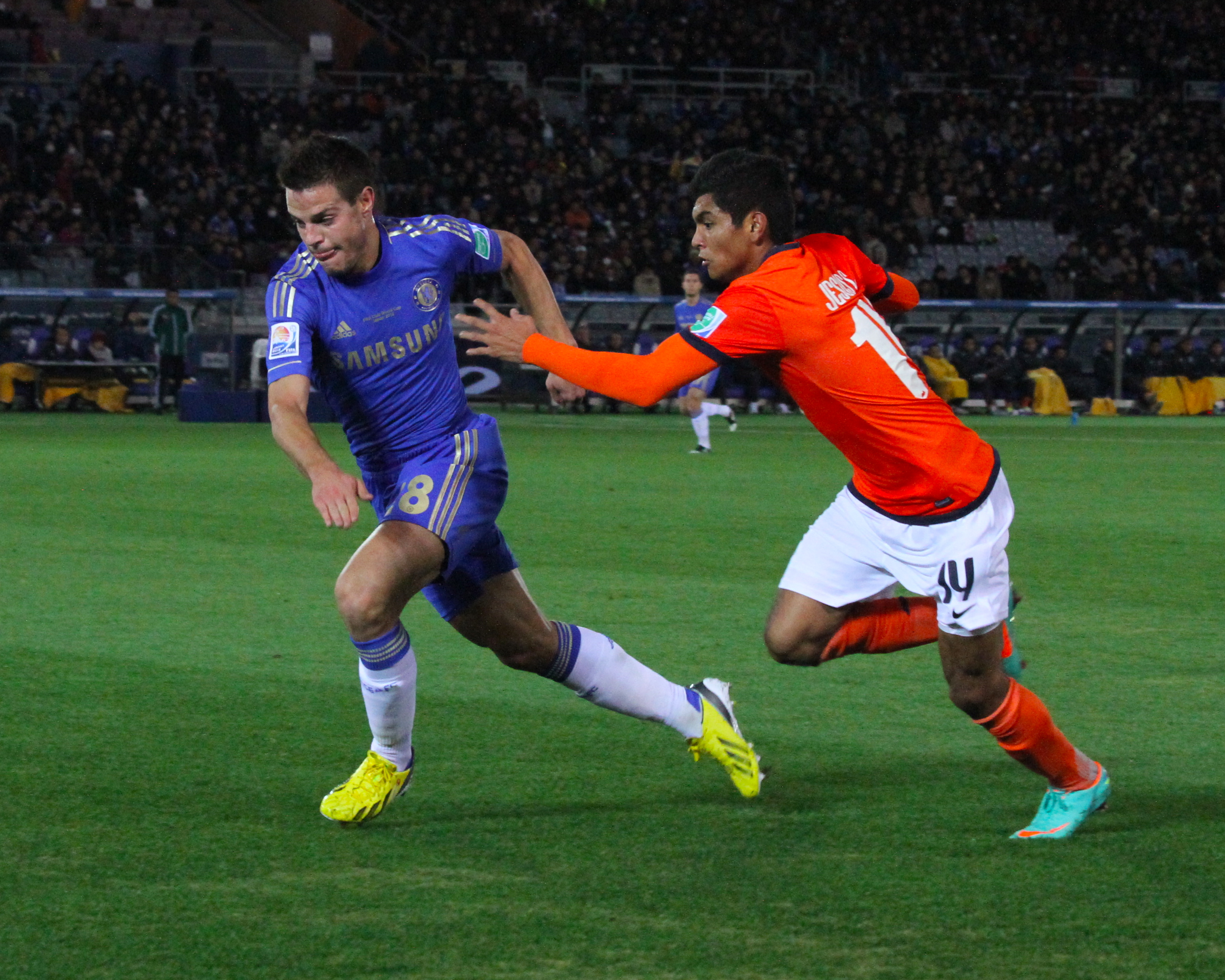 César Azpilicueta of Chelsea defended by Jesús Manuel Corona of Monterey.